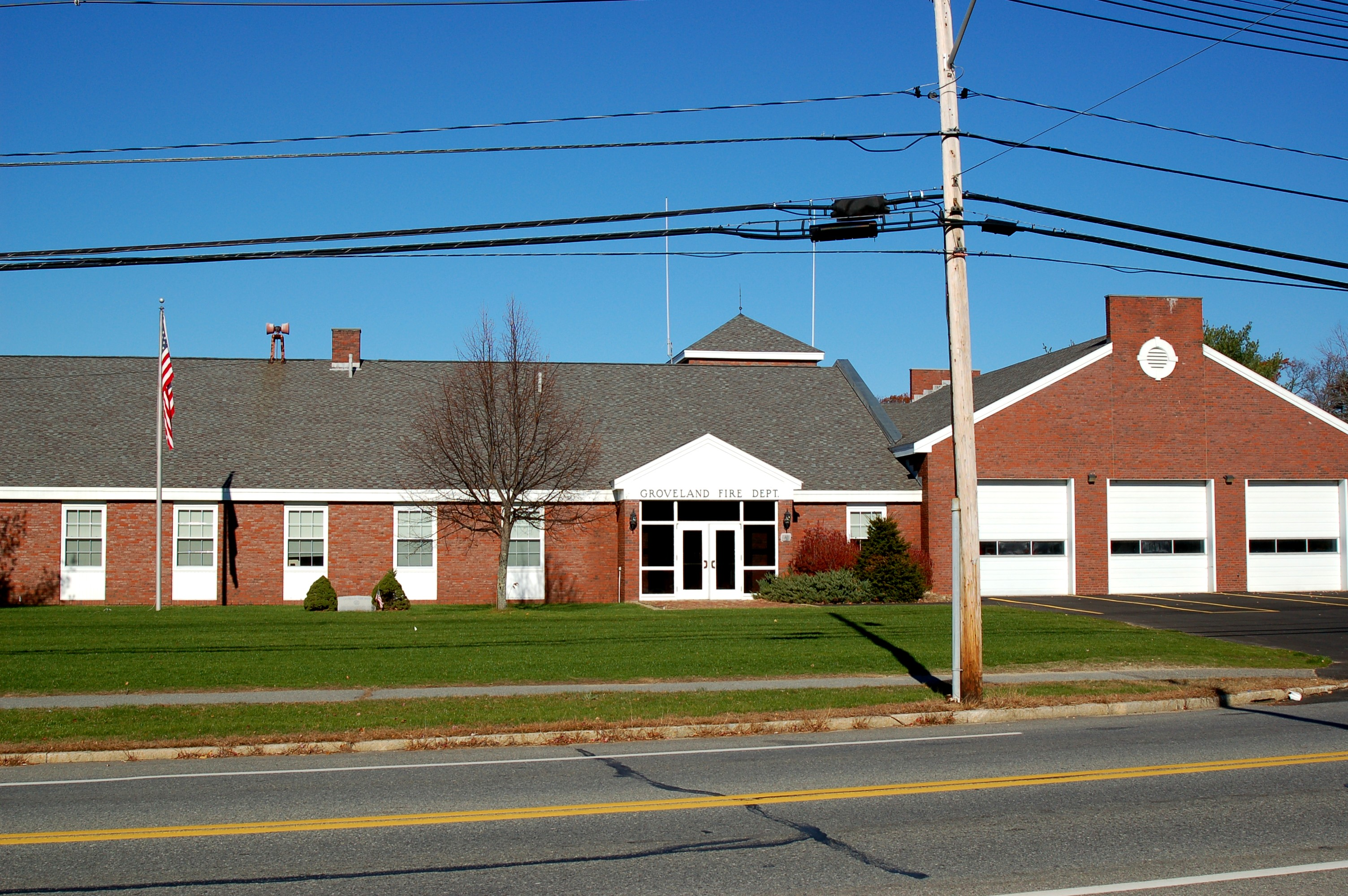 Groveland Massachusetts Fire Department. Photo taken by Author, Richard B. Johnson.